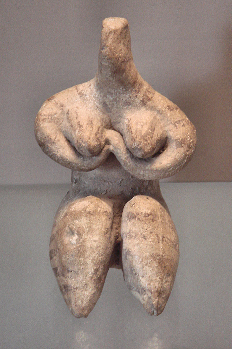 Fertility figurine (maybe a goddess?); 6000-5100 BC; painted clay; height: 8.2 cm; by Halaf culture; Louvre Louvre.fr